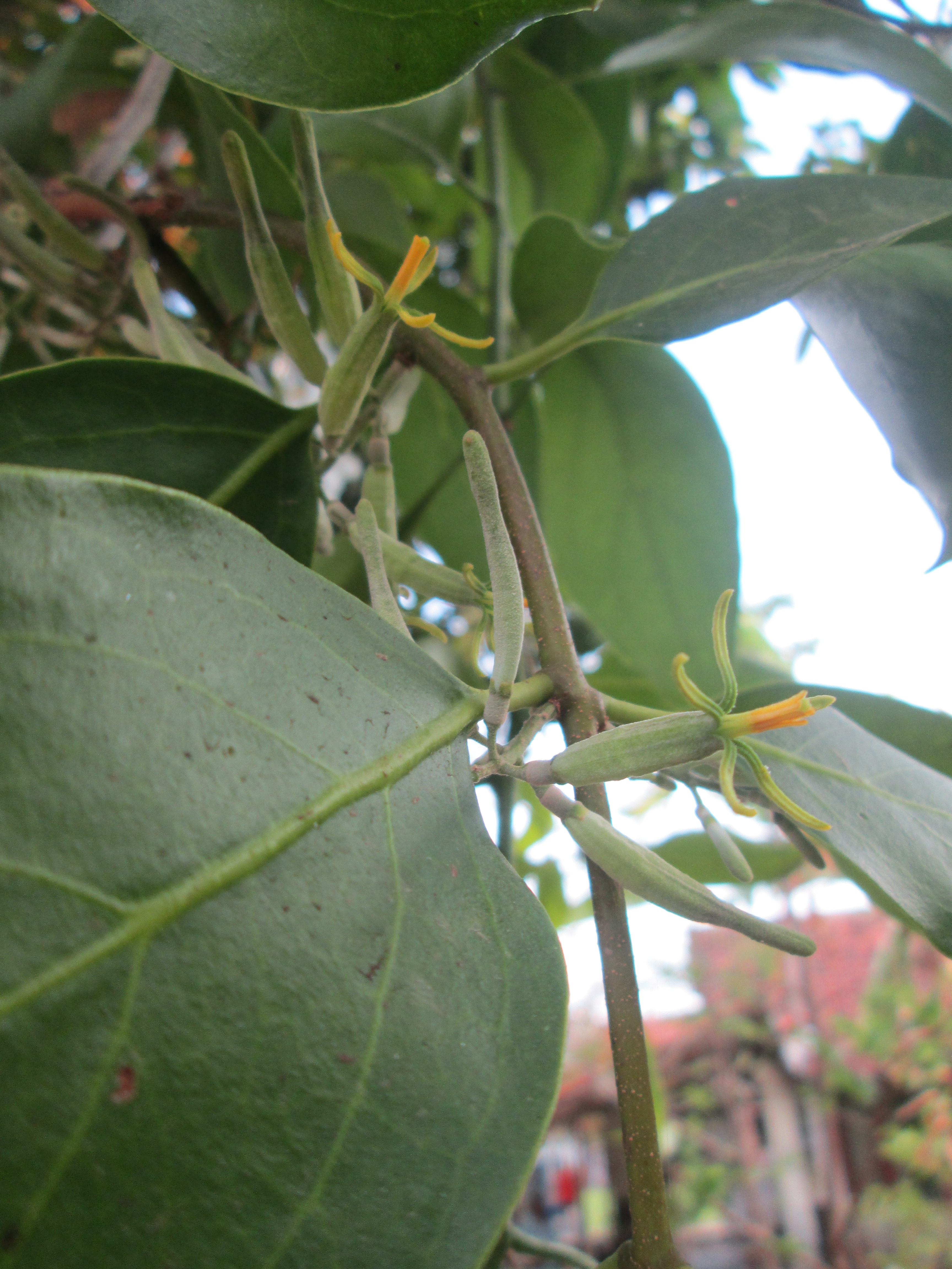 Dendrophthoe pentandra's flowers